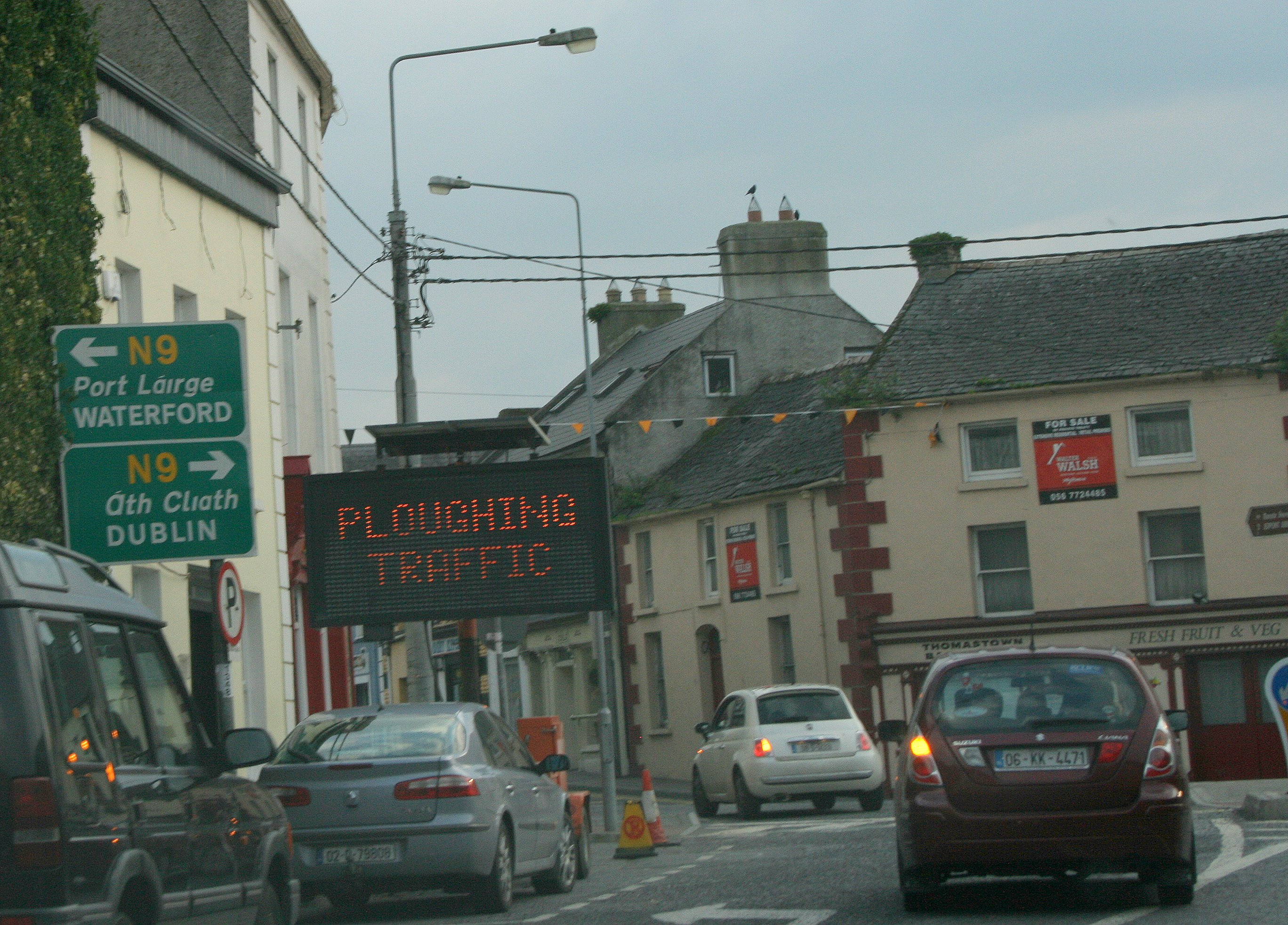 Existing N9 through Thomastown